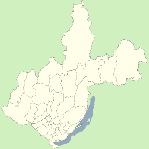 Map of Irkutsk Oblast and Ust-Orda Buryat Okrug, Russian Federation.